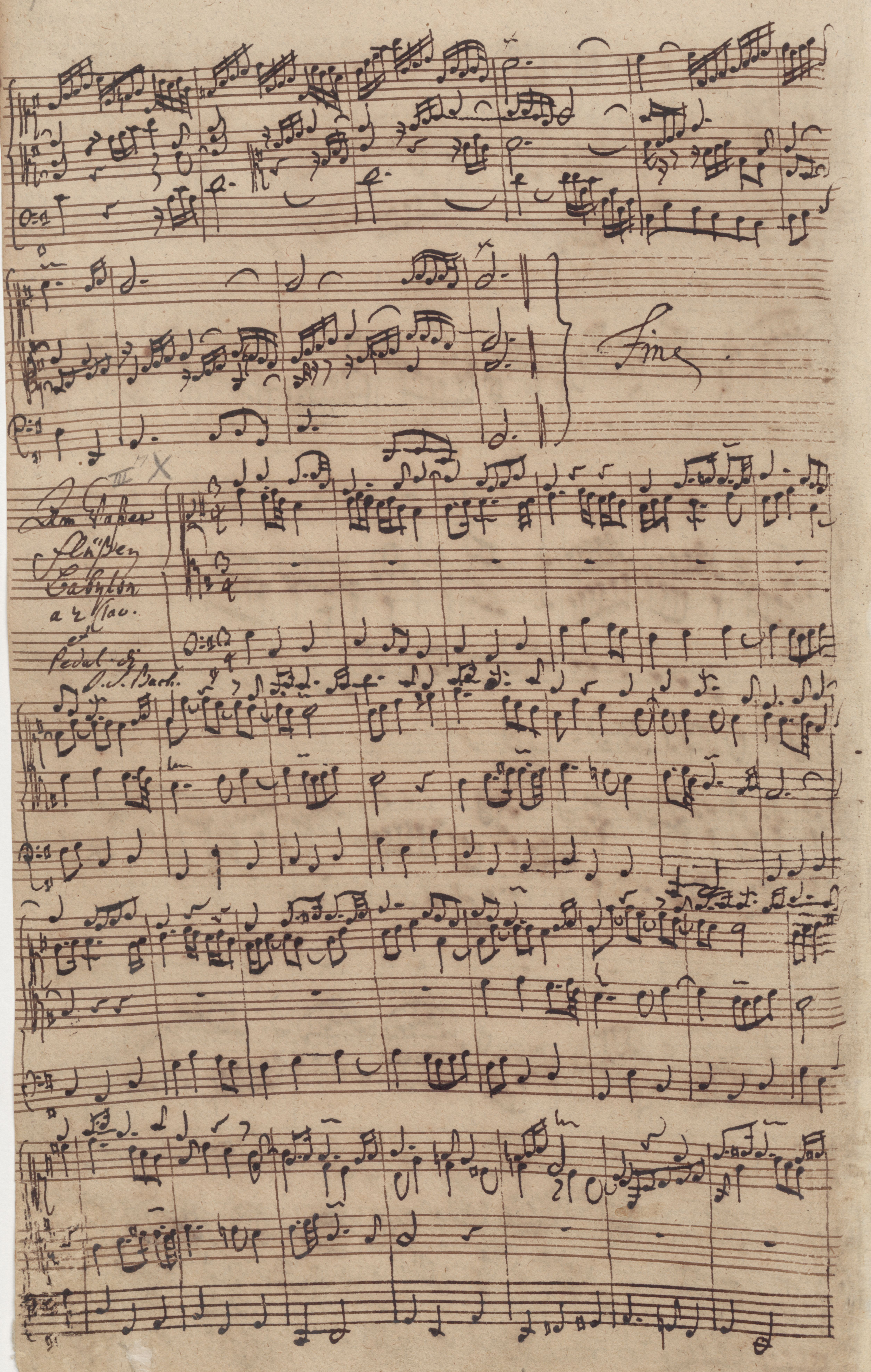 Autograph manuscript P 271 of first page from the start of An Wasserflüssen Babylon, BWV 653.